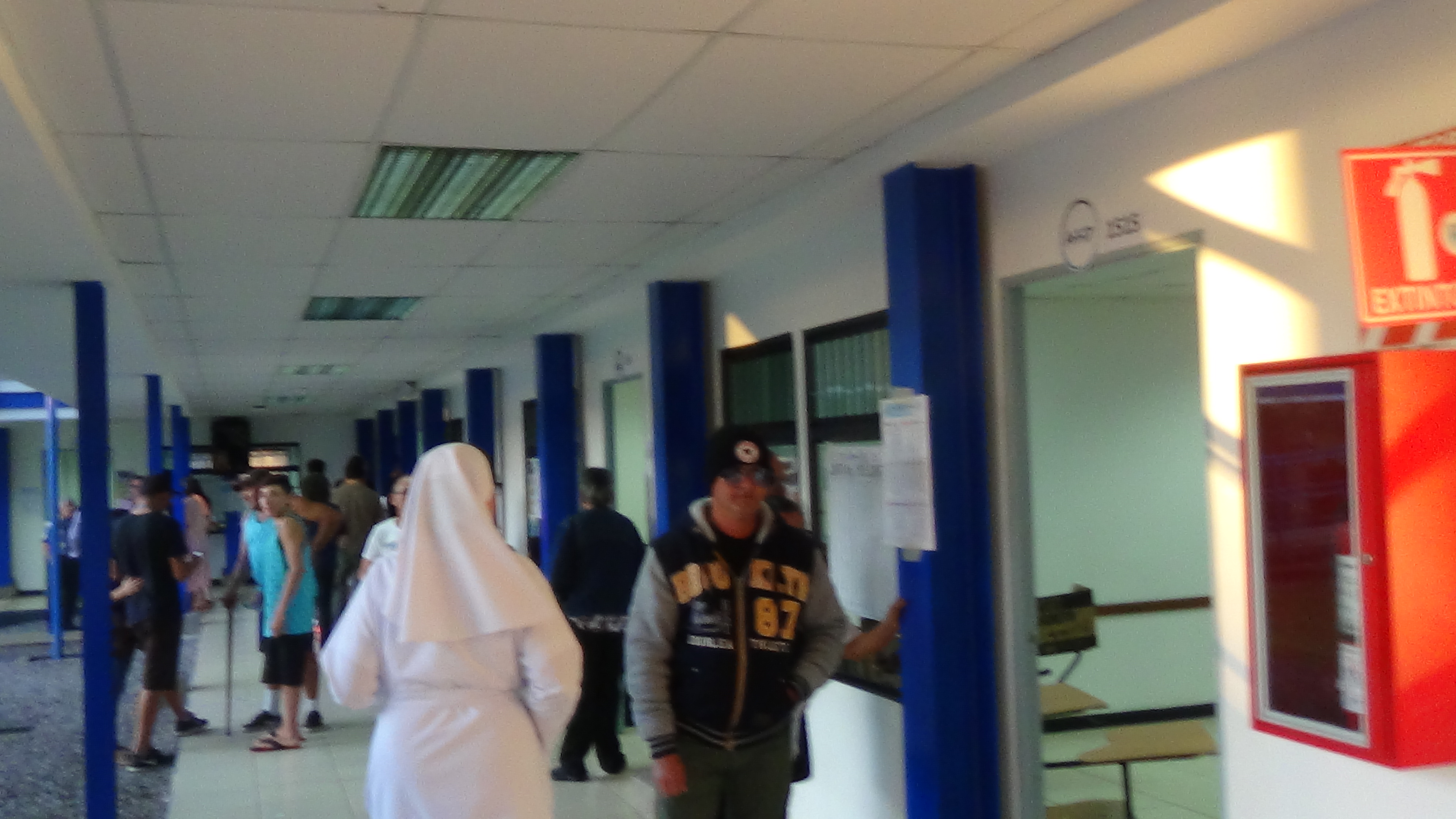 Votantes en Costa Rica 2018